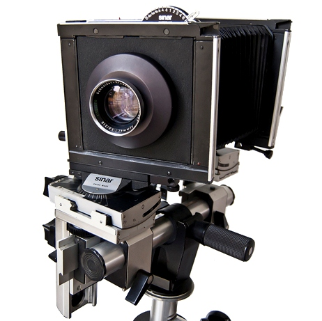 Sinar P, resembling the typical P-series build.